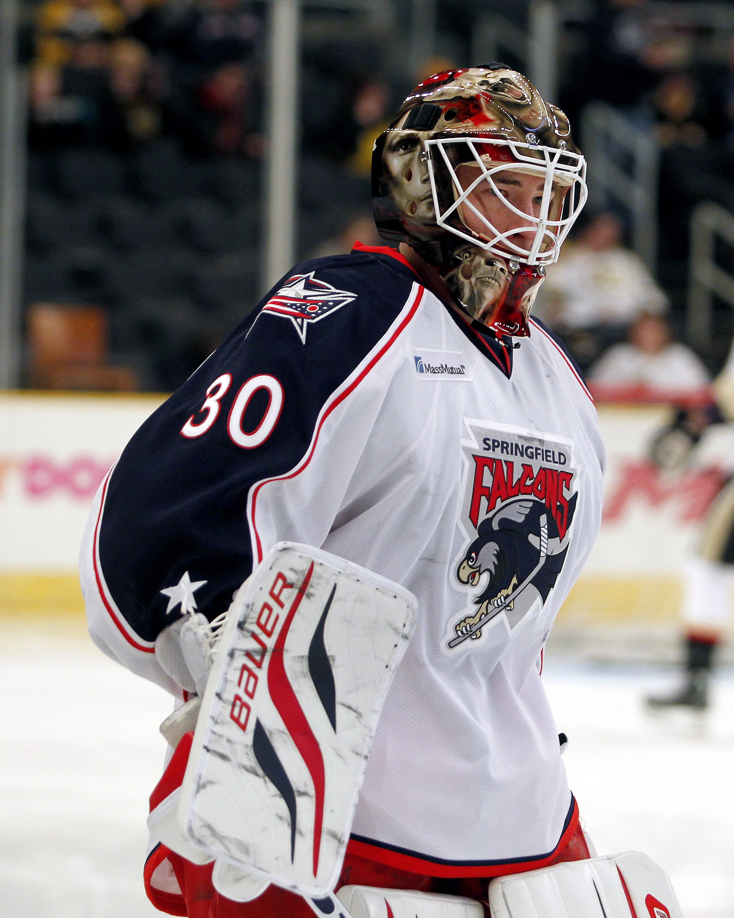 Curtis McElhinney American Hockey League (AHL). 2013 All-Star Skills Competition. Taken on January 27, 2013.